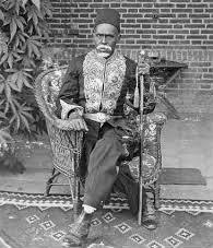 Al-Zubayr Rahma Mansur